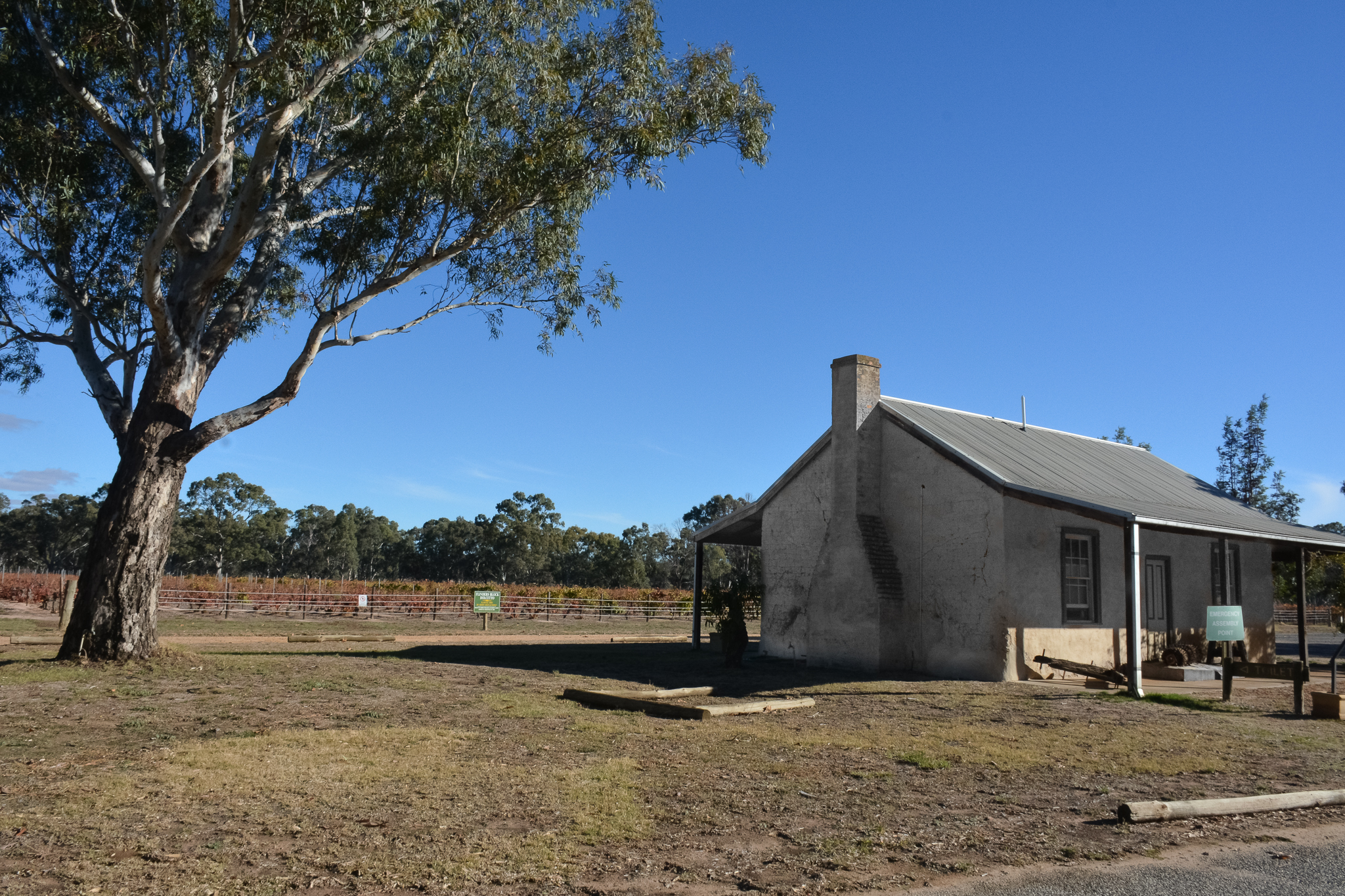 The vineyard and old building, with a large eucalypt tree, at Best's Winery, Great Western, Victoria